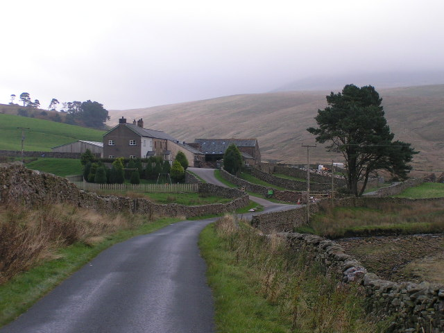 Kingsdale Head. Sheep farm at the top of Kingsdale, offering self-catering accommodation. Viewed from SD708795 looking northeast.